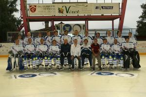 First ice hockey team villars hc